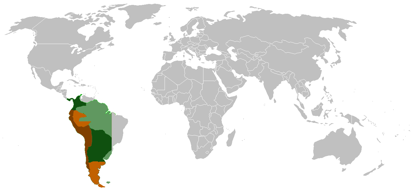 Coloured area (all): Theoretical extension at the moment of its creation in 1542 Dark area: Colonized area in its maximum extension ca 1650 Light areas: Areas which were never effectively controlled by the Spanish Brown-coloured area: The Viceroyalty a few years before its end in 1818